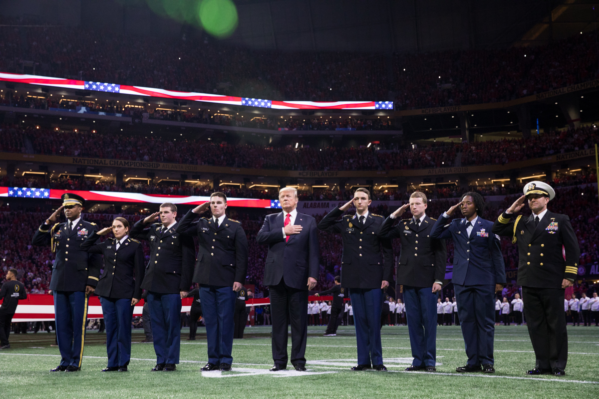 President Donald J. Trump participates in on field ceremonies at the 2018 College Football Playoff National Championship between the University of Alabama Crimson Tide and the University of Georgia Bulldogs